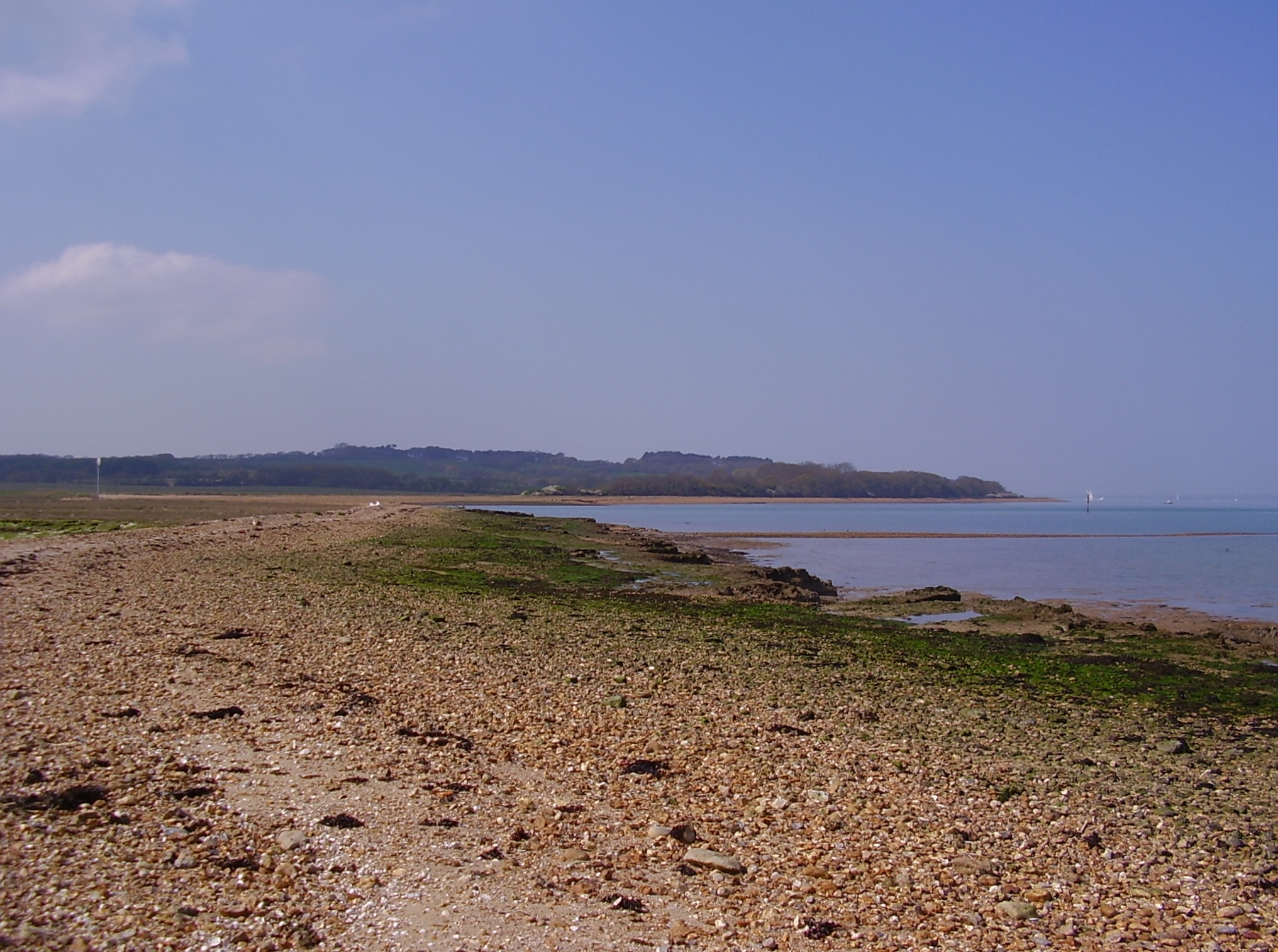 Newtown Bay, Isle of Wight, UK, near the mouth of Newtown Harbour